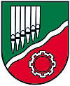 Coat of arms of the municipality of Ansfelden in Austria